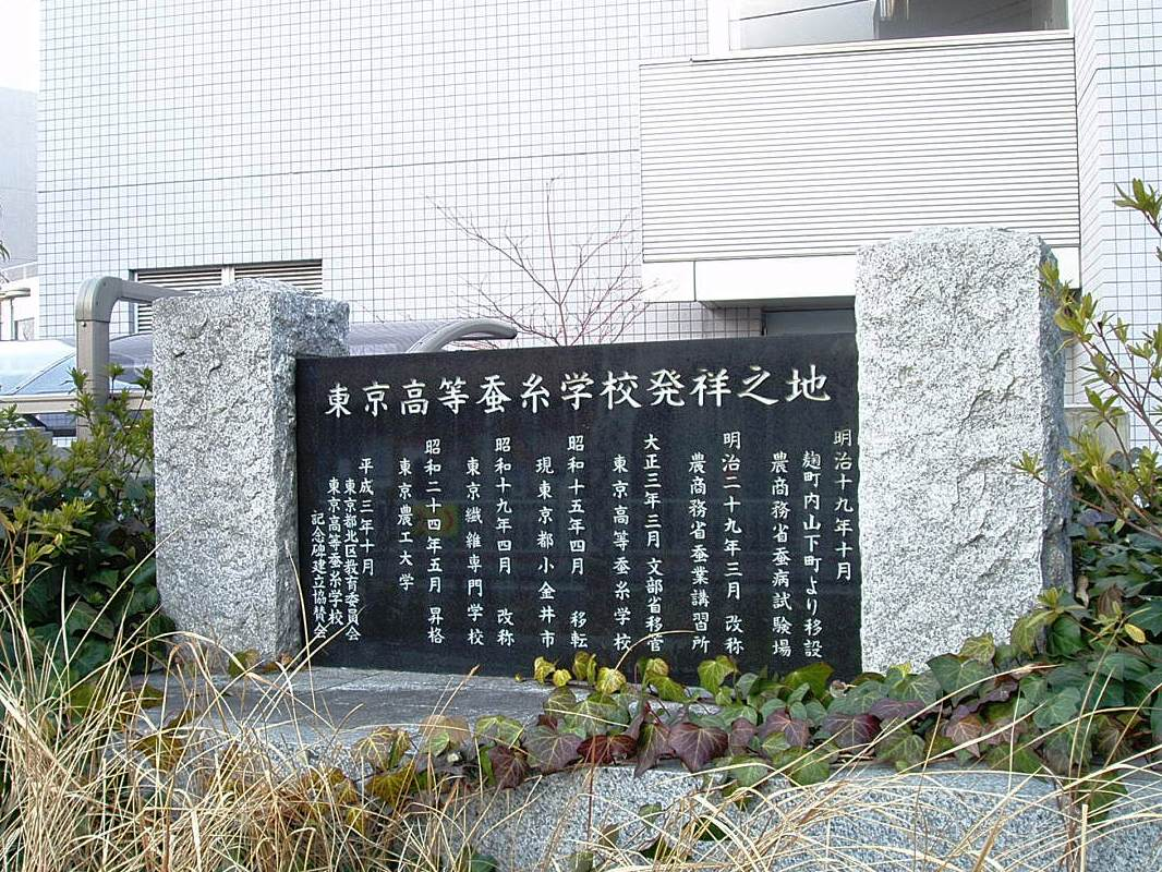 A memorial of Tokyo Imperial College of Sericulture (one of the predecessors of Tokyo University of Agriculture and Technology), located in Nishigahara, Kita City, Tokyo, Japan.The college was located here from 1886 to 1940.